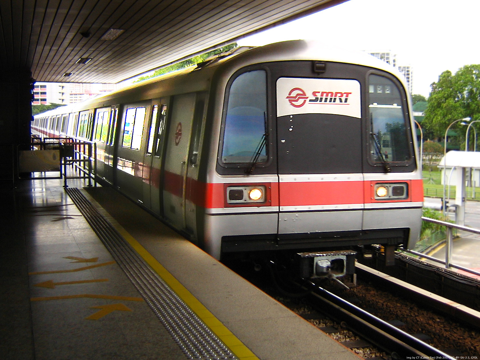 An unrefurbished C151 train entering Yio Chu Kang Station